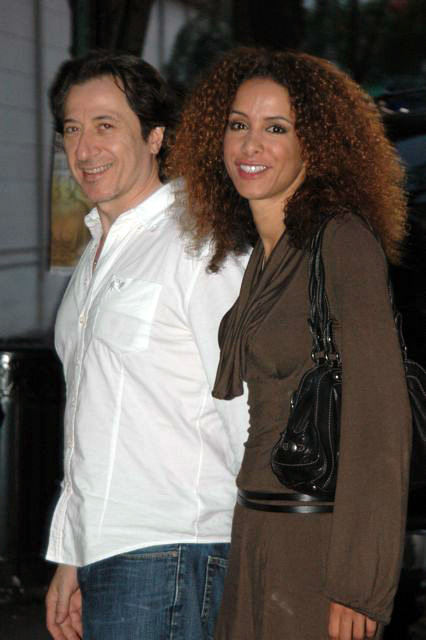 Yvonne Maria Schaefer